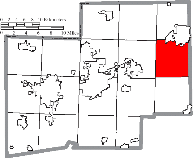 Map of the municipal and township boundaries of Stark County, Ohio, United States, as of the 2000 census, with the location of Washington Township highlighted. Township borders are shown only in unincorporated areas in order to differentiate incorporated and unincorporated areas more clearly.